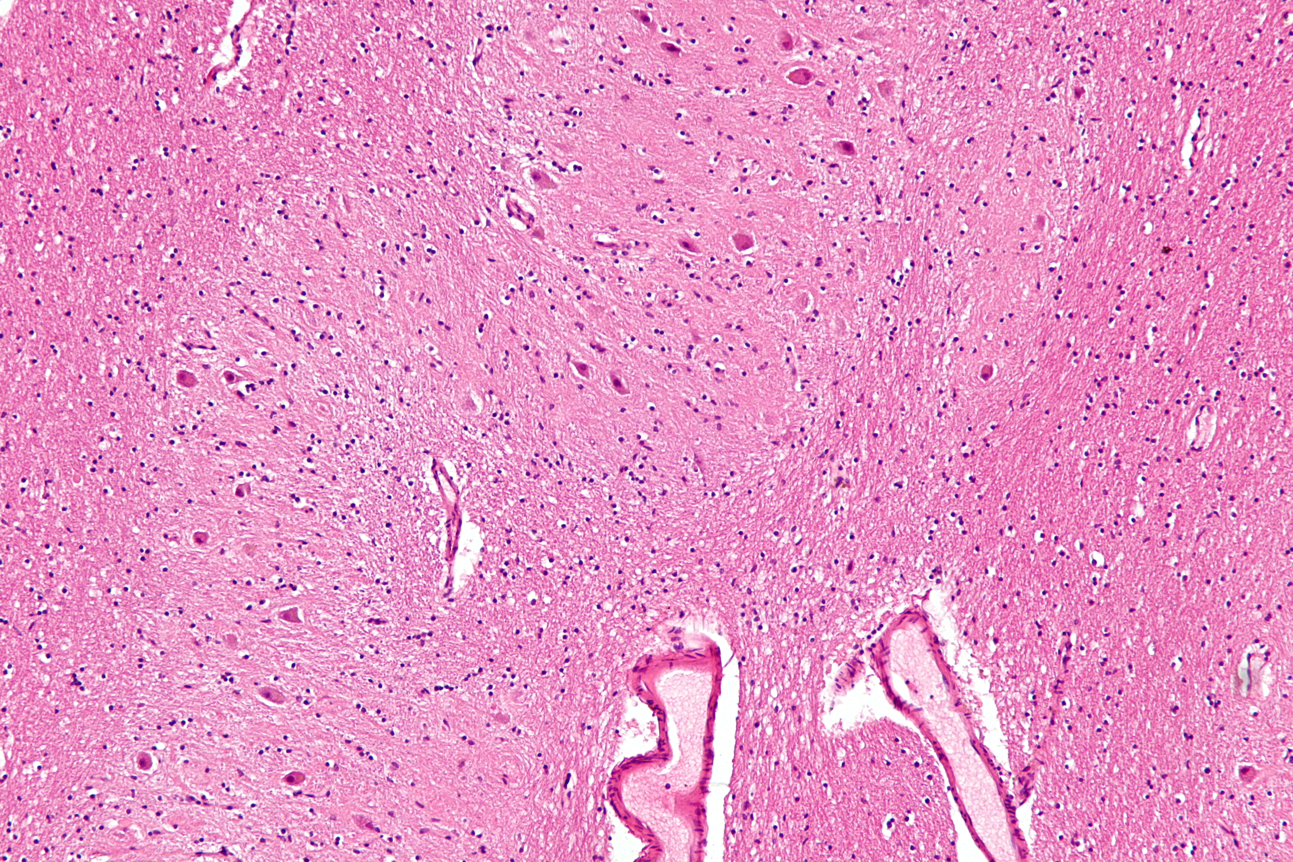 Intermediate magnification micrograph of the dentate nucleus of the cerebellum. H&E stain. Related images Intermed. mag. High mag.